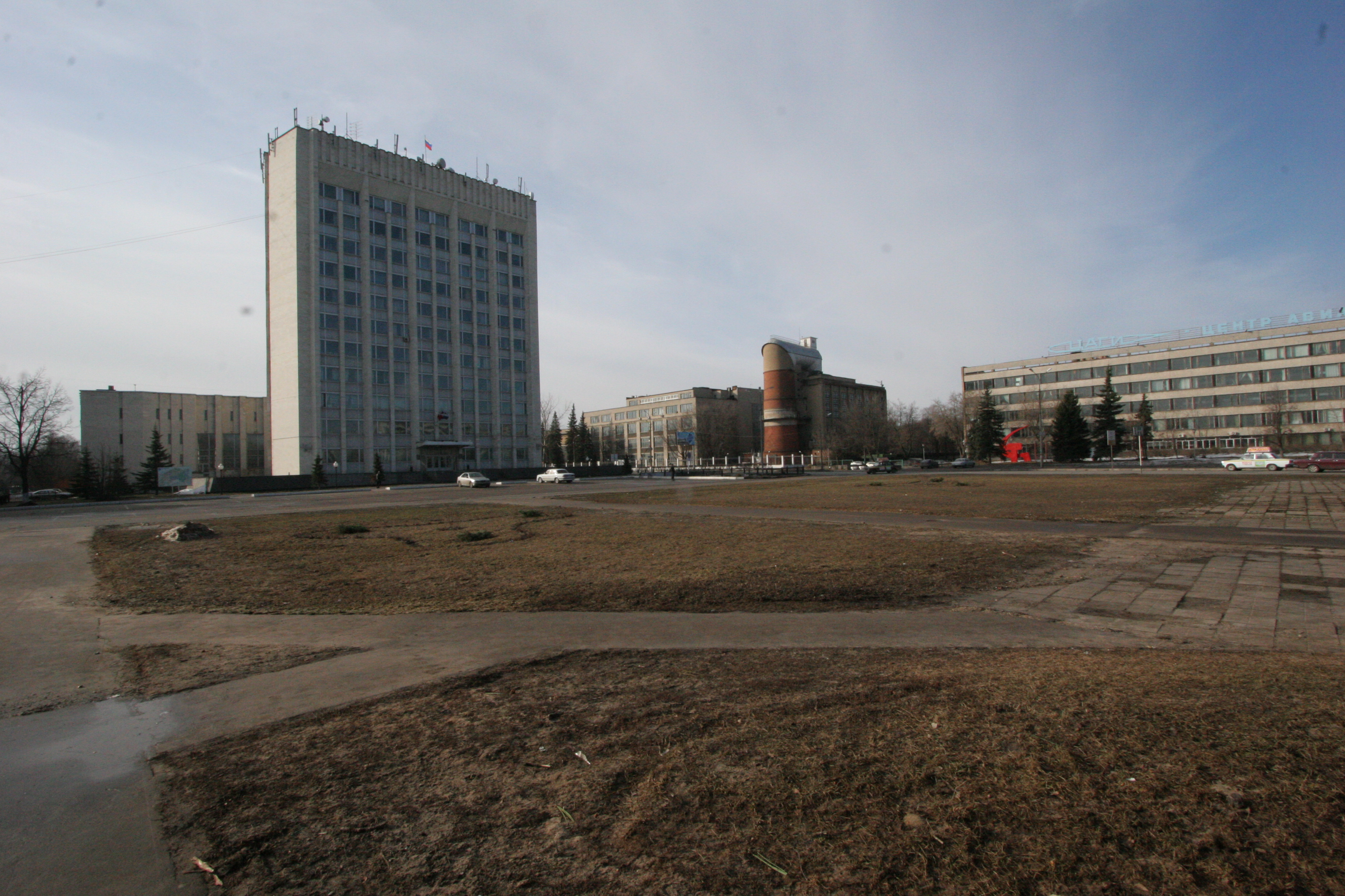 TsAGI and the City Hall, Svishev square, Zhukovskiy city